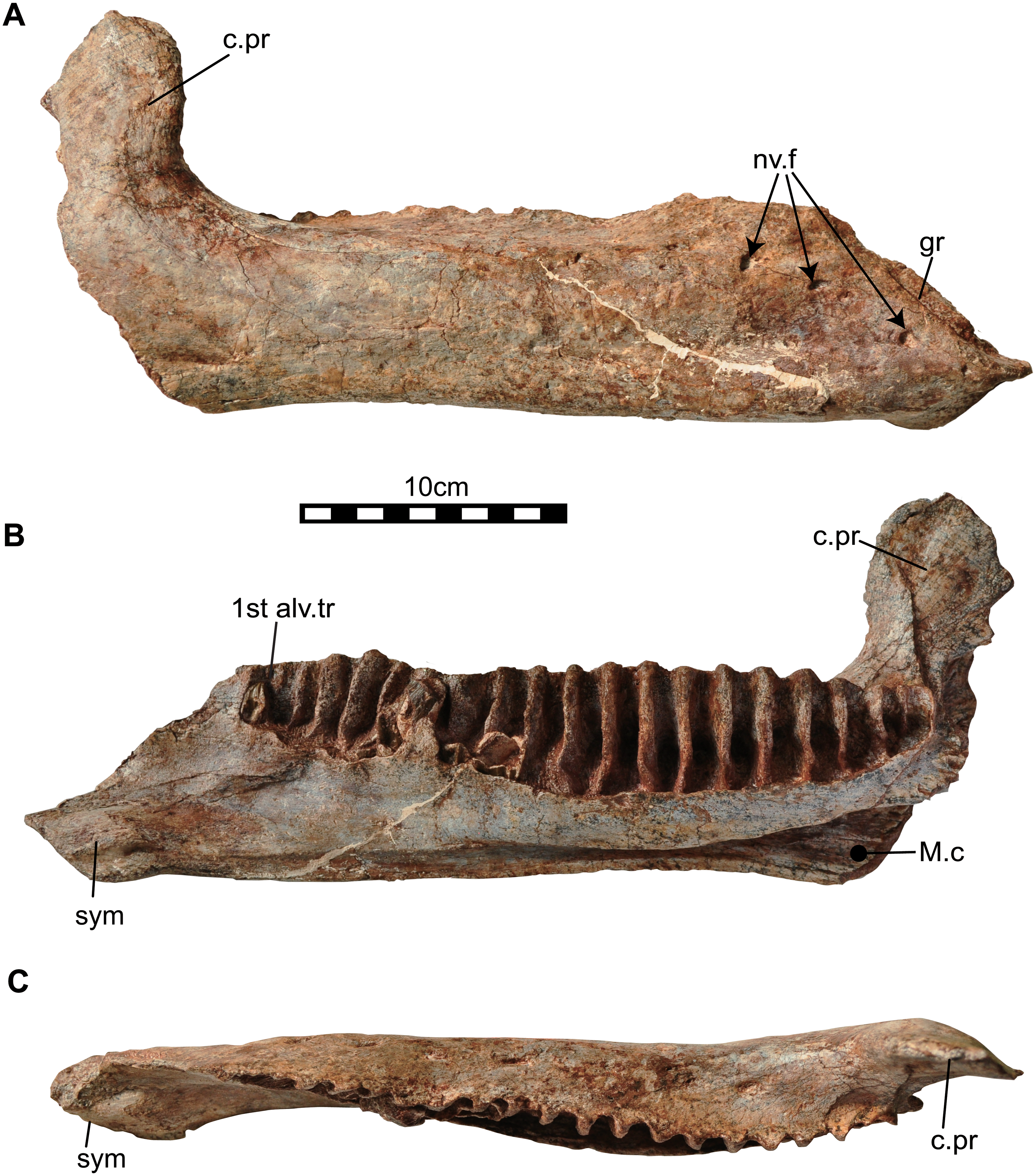 Right dentary (NRRU3001-167) of Sirindhorna. In labial (A), lingual (B), and occulusal (C) views. Abbreviations: alv.tr, alveolar trough; c.pr, coronoid process; gr, groove; nv.f, neulovascular foramen; sym, symphysis; v.pr, ventral process. Scale bar equals 10 cm.